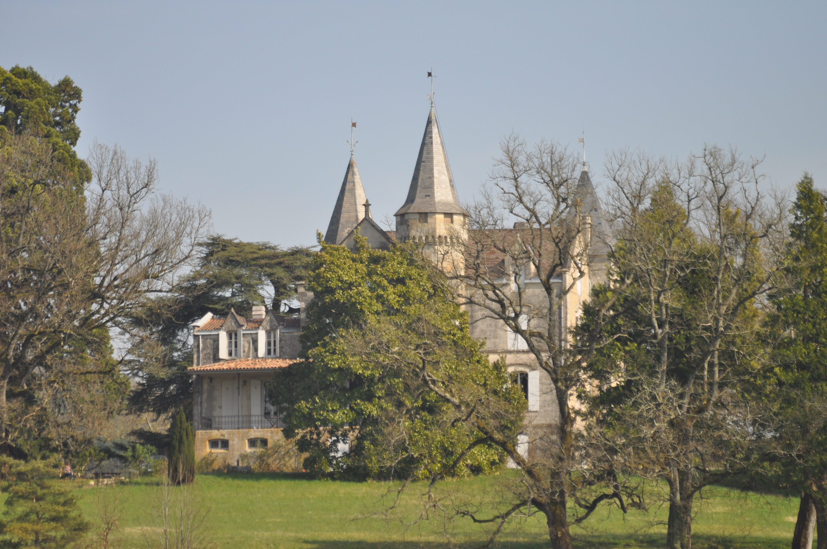 Castillo de Plantey